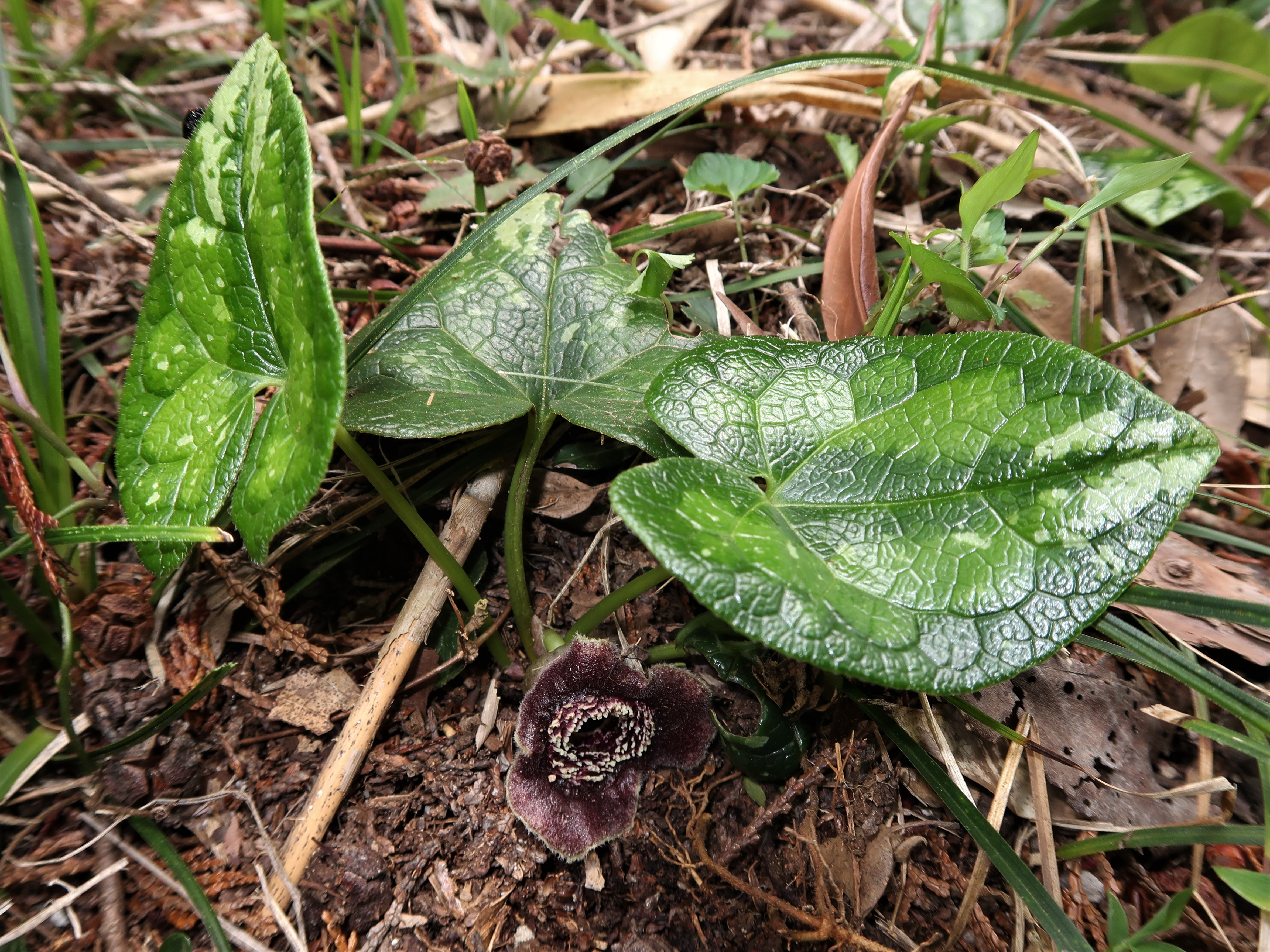 Asarum muramatsui, Izu city, Shizuoka pref., Japan